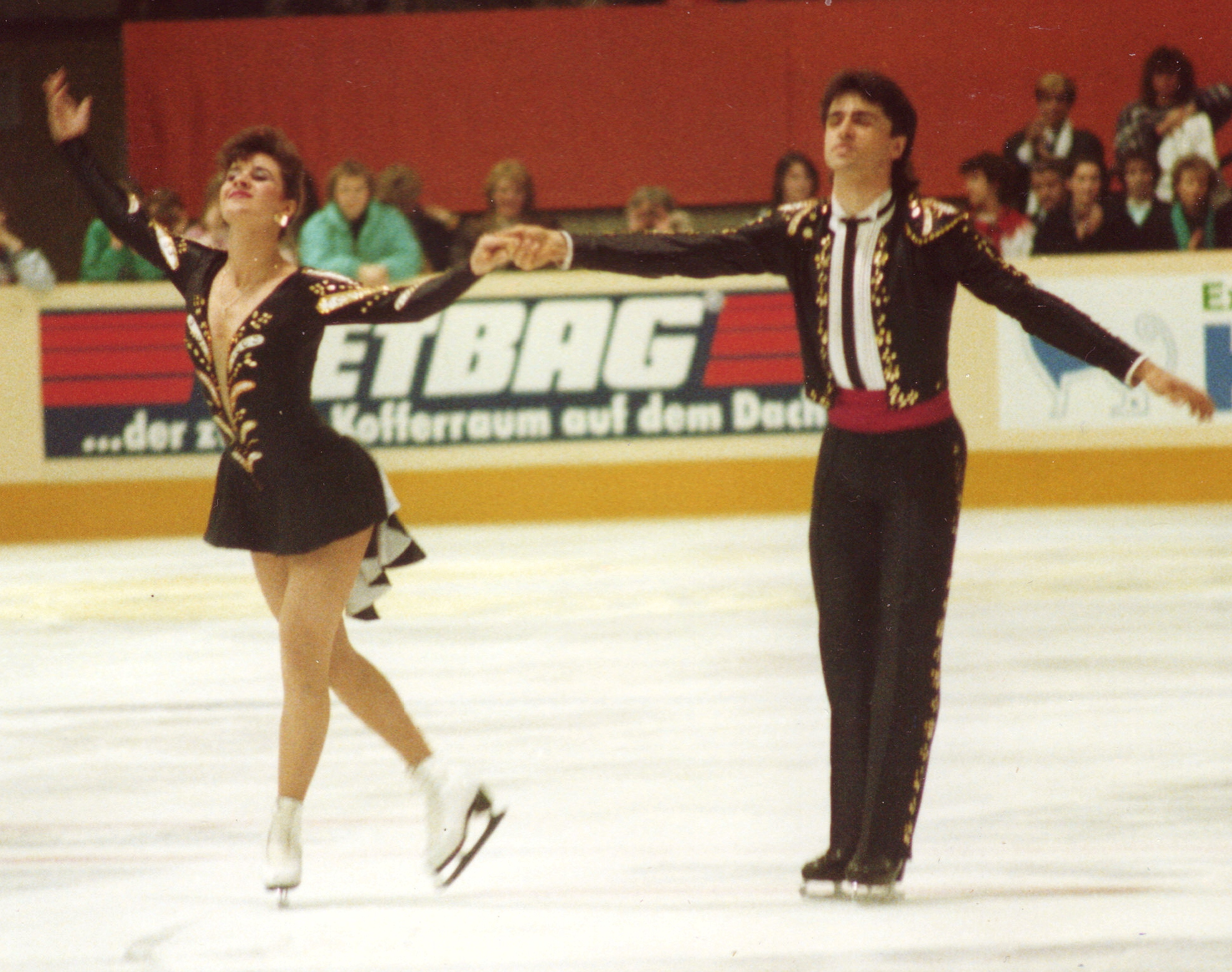 Isabelle and Paul Duchesnay at the ISU-exhibition in West-Berlin 1989